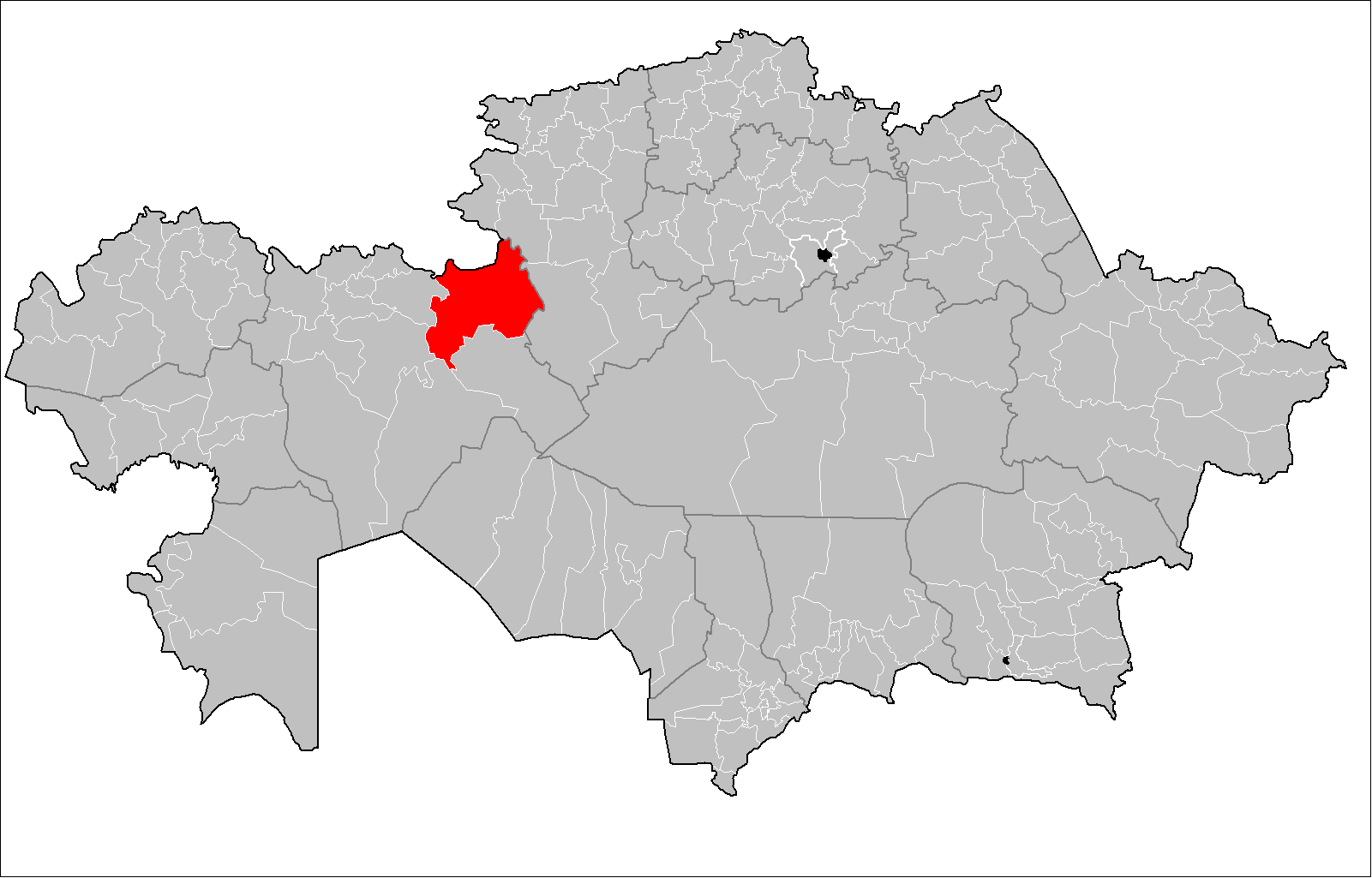 Map of the rayons of Kazakhstan. Created by Rarelibra 16:49, 3 August 2007 (UTC) for public domain use, using MapInfo Professional v8.5 and various mapping resources.